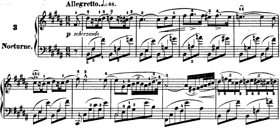 Opening bars of Chopin's Nocturne Op 9, No 3